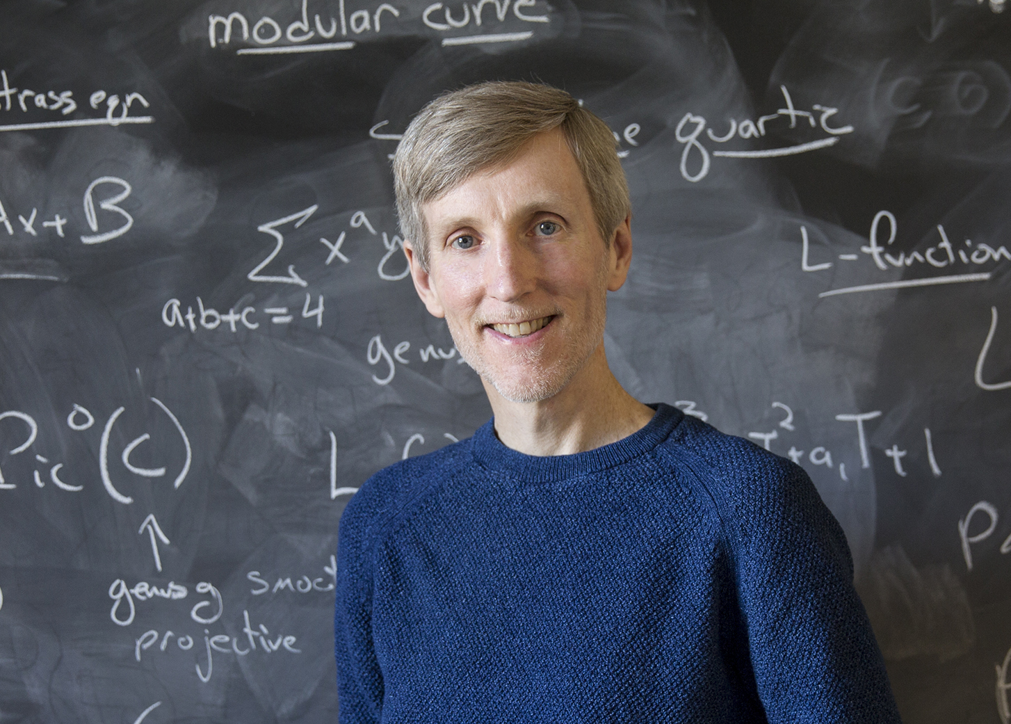 Andrew Sutherland of MIT, photographed at the MIT campus in Cambridge, MA